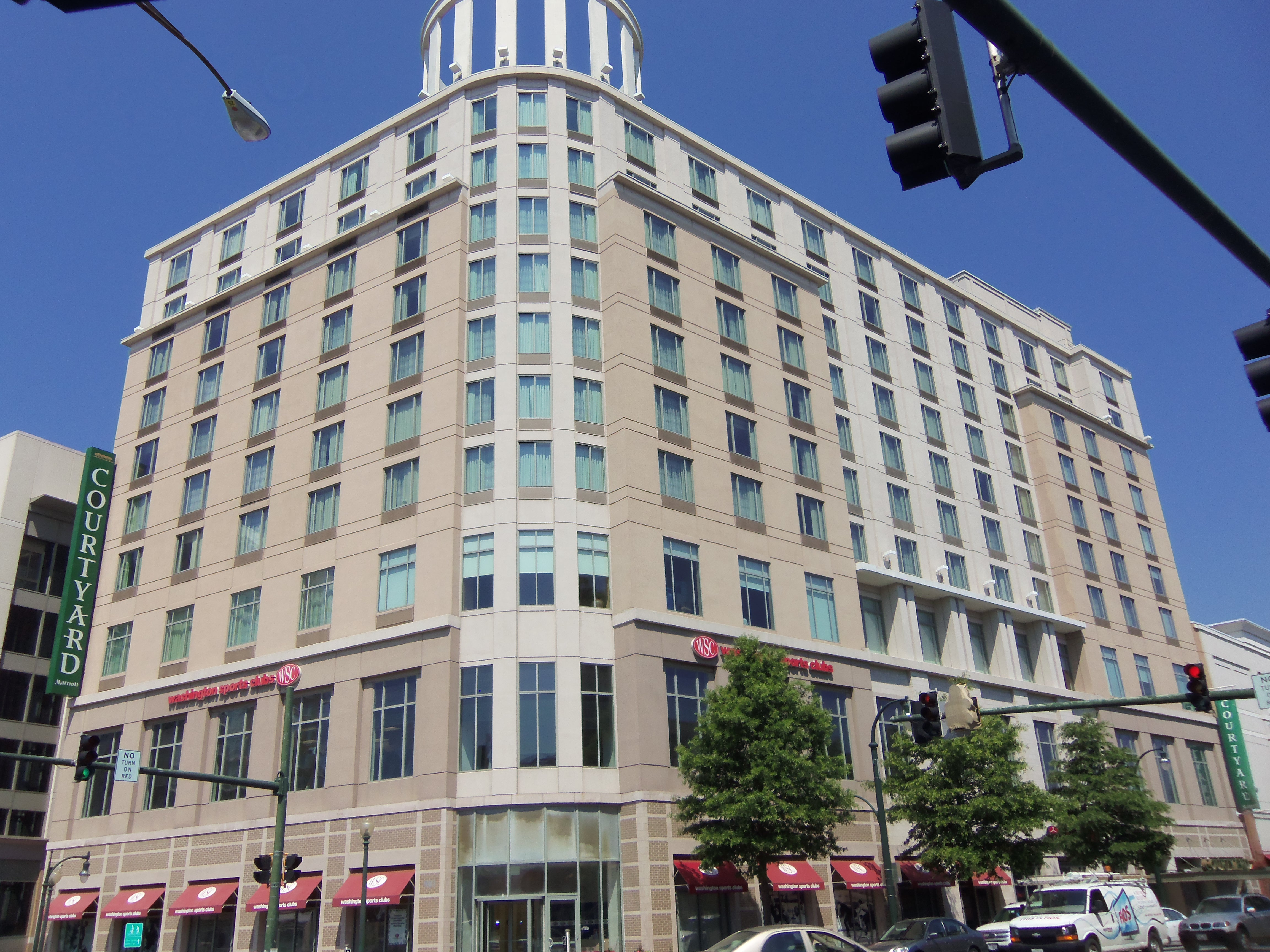 The Courtyard by Marriott hotel on Wayne Avenue and Fenton Street in downtown Silver Spring, Maryland.